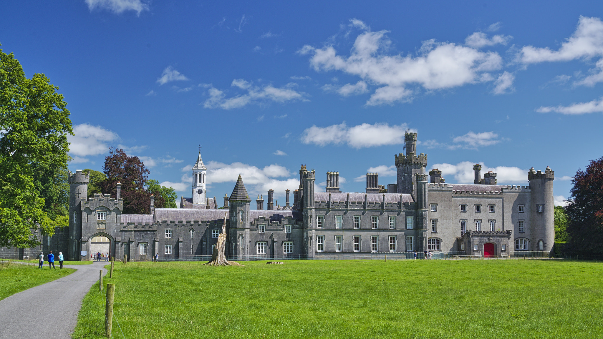 500px provided description: Tullynally Castle is a hodgepodge built over centuries, but mostly it is a gothic revival edifice, still in the family, although the gardens are open to the public, and well worth a visit. One of the largest castles in Ireland. [#architecture ,#summer ,#green ,#castle ,#gothic ,#ireland ,#revival ,#westmeath ,#tullynally]